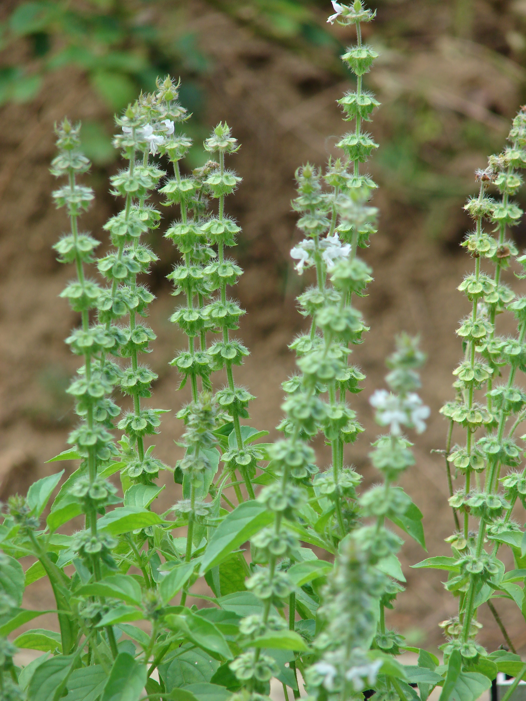 Ocimum basilicum (flowers in garden). Location: Midway Atoll, Commodore Ave around residences Sand Island